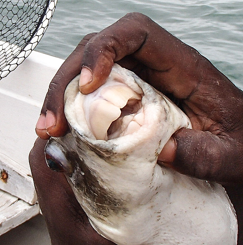 Mouth with big teeth of a butterfish in Gambia